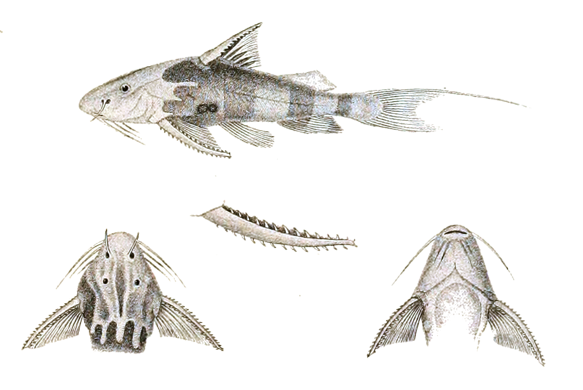 Conta conta syn. Erethistes contaThe species names / identity need verification. The original plates showed the fishes facing right and have been flipped here. Erethistes conta